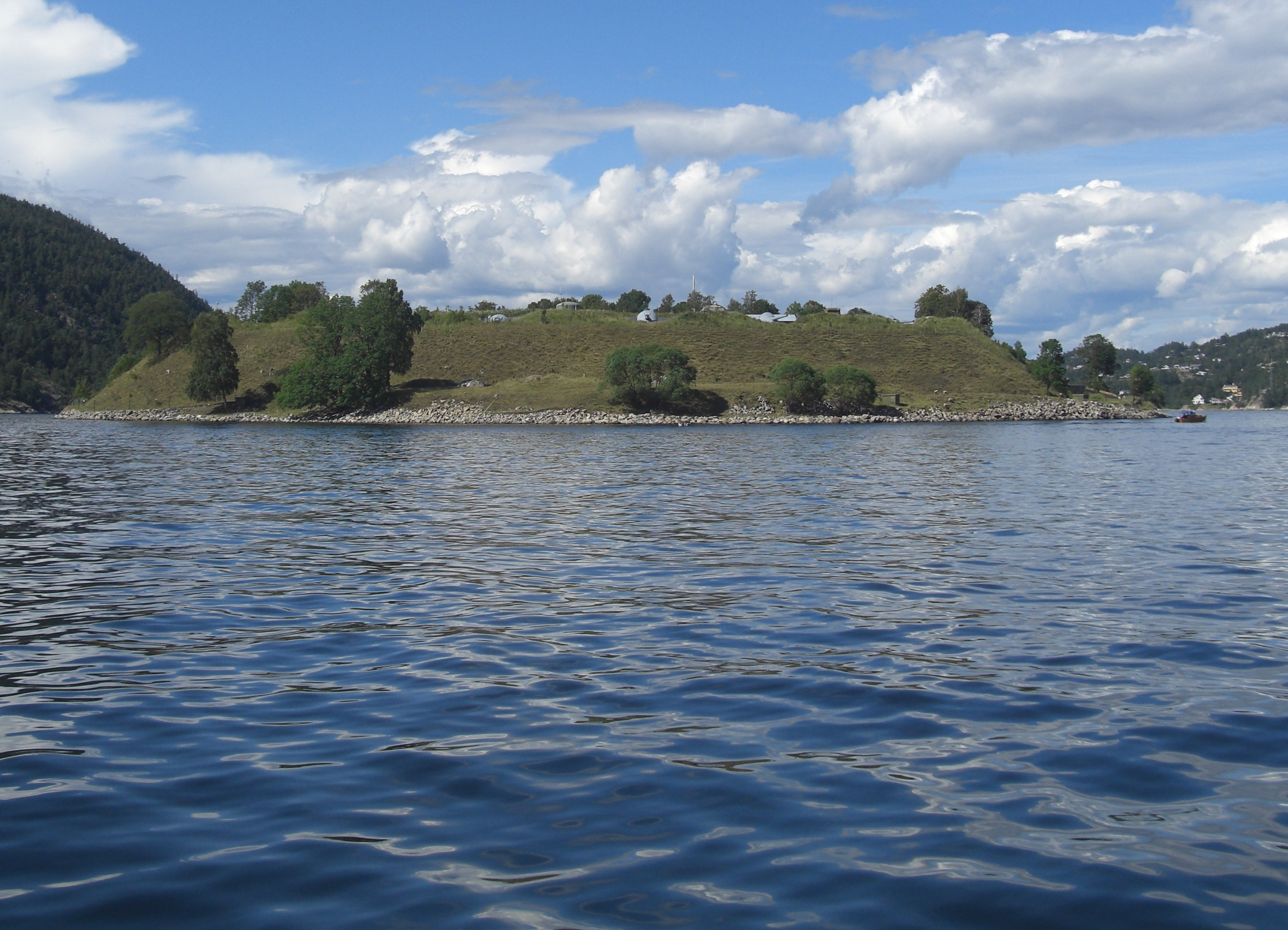 Oscarsborg, main battery